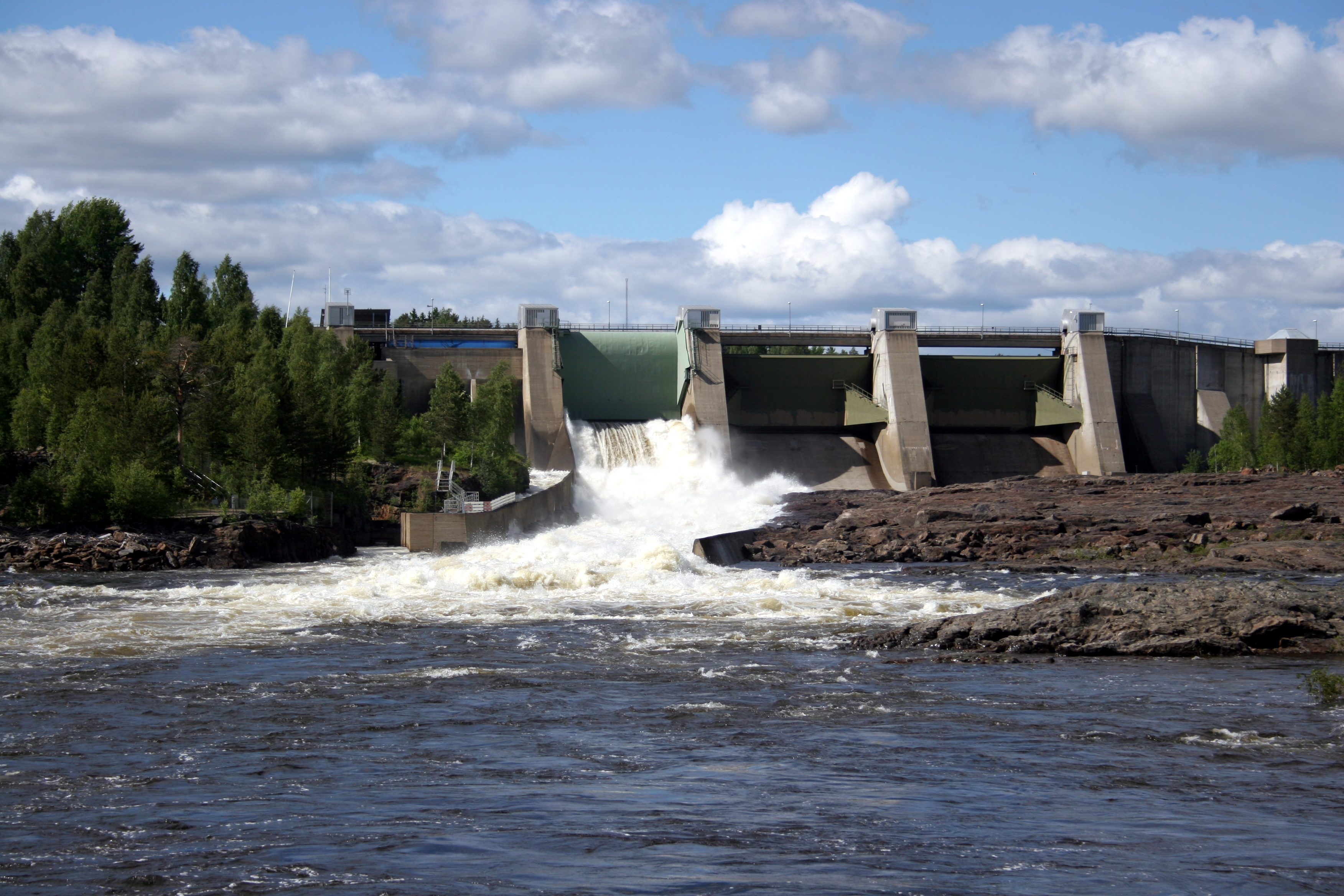 The dam of th Stornorrfors powerplant in Ume älv near Umeå, Sweden.